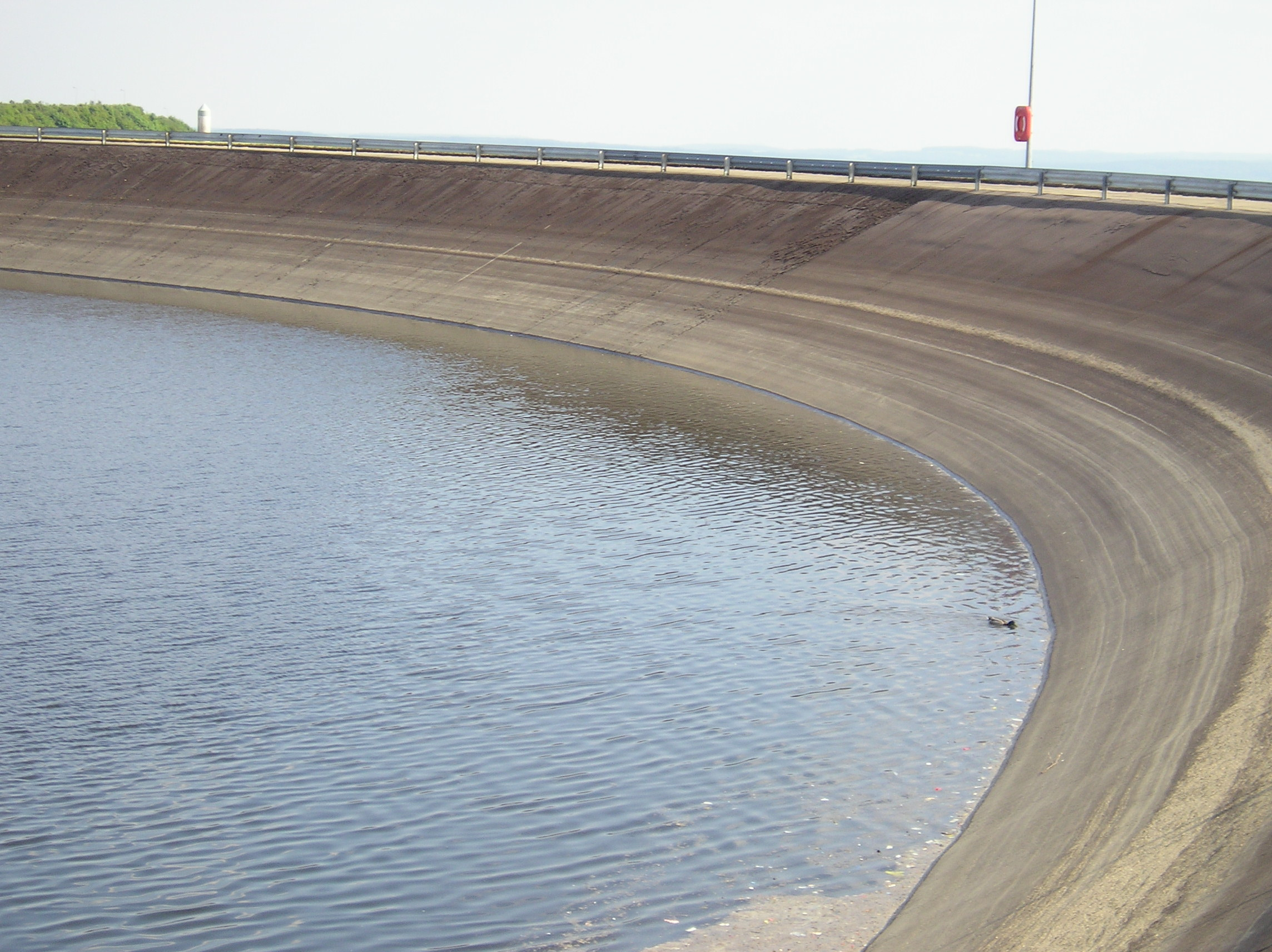 Vianden - reservoir water power station